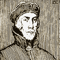 portrait of nicholas jenson